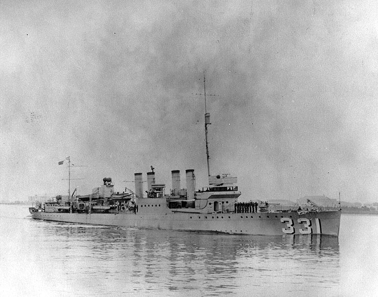 The U.S. Navy destroyer USS Macdonough (DD-331) underway, during the 1920s.